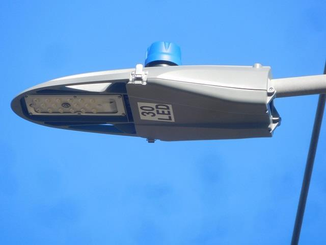 History of street lighting : E-lite, Star SL3S 30 watt variant.